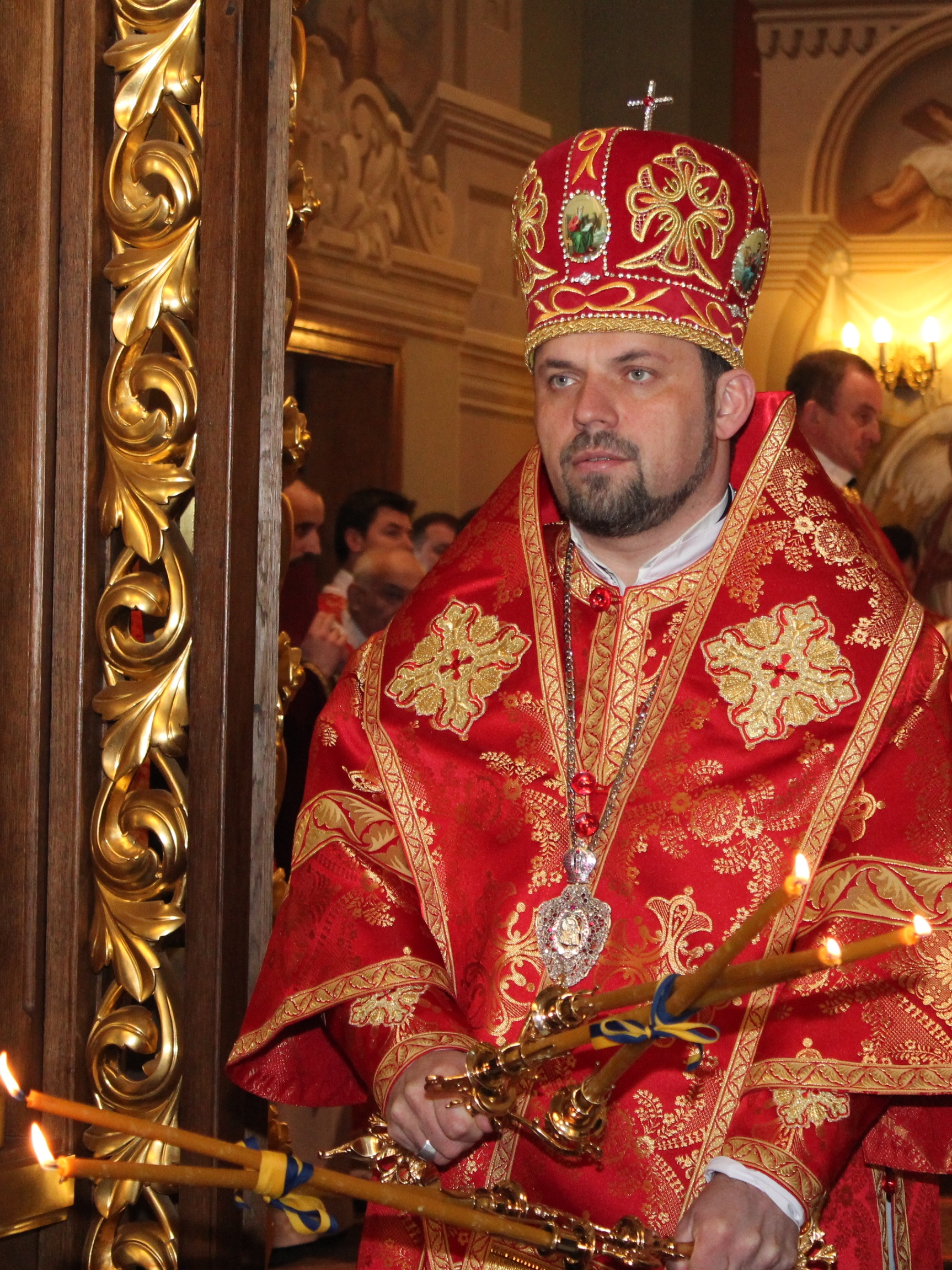 Bishop Josaphat Moshchych